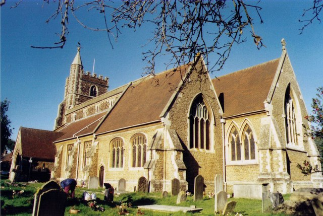 All Saints, Wokingham Grade 2* listed building erected in the 14th century.